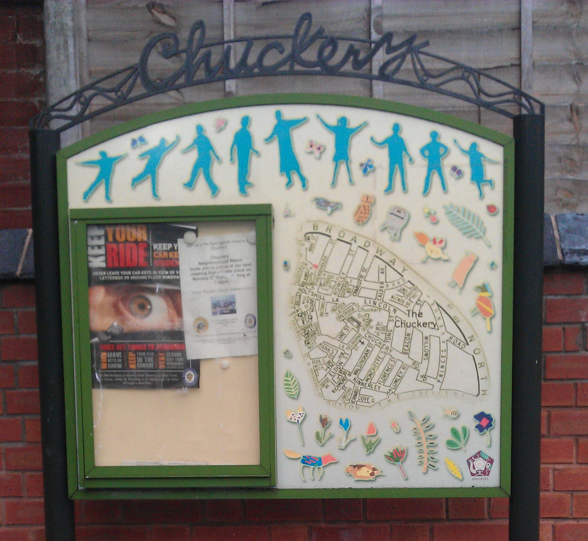 A community noticeboard in Chuckery, Walsall, England. Object location52° 35′ 11.32″ N, 1° 58′ 26.32″ W